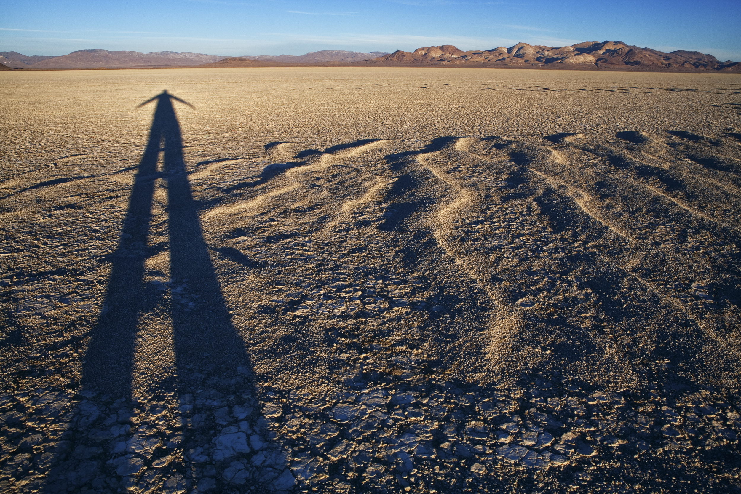 conservationlands15 Social Media Takeover, March 15th What is an National Conservation Area? From the vast deserts of western Nevada to the fog-shrouded coast of Northern California, the BLM’s National Conservation Lands has stewardship of 16 NCAs and five similarly designated lands in ten states. Each area is has its own unique congressional legislation guiding BLM stewardship and public use. They offer a wide range of recreation opportunities, from whitewater rafting and gold-medal trout fishing in the Gunnison Gorge NCA in Colorado to world-class rock climbing in Red Rock Canyon NCA in Nevada. These lands feature exceptional scientific, cultural, and ecological values. For example, the San Pedro Riparian NCA in Arizona supports over 350 species of birds while the Steese NCA in Alaska contains critical caribou calving grounds. They differ tremendously in landscape and size, the largest being Nevada’s 1.2 million acre Black Rock Desert-High Rock Canyon- Emigrant Trails National Conservation Area. Photos by Bob Wick, BLM